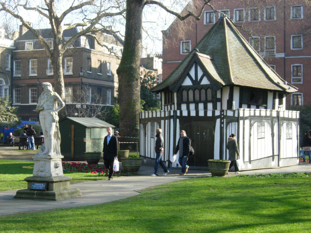 Soho Square Soho Square was originally laid out in the early 1680s and was regarded as a very fashionable place to live in the 18th century. In the 19th century the square became more commercial in character as offices replaced the residential houses. Today it is one of the very few open public spaces within Soho.